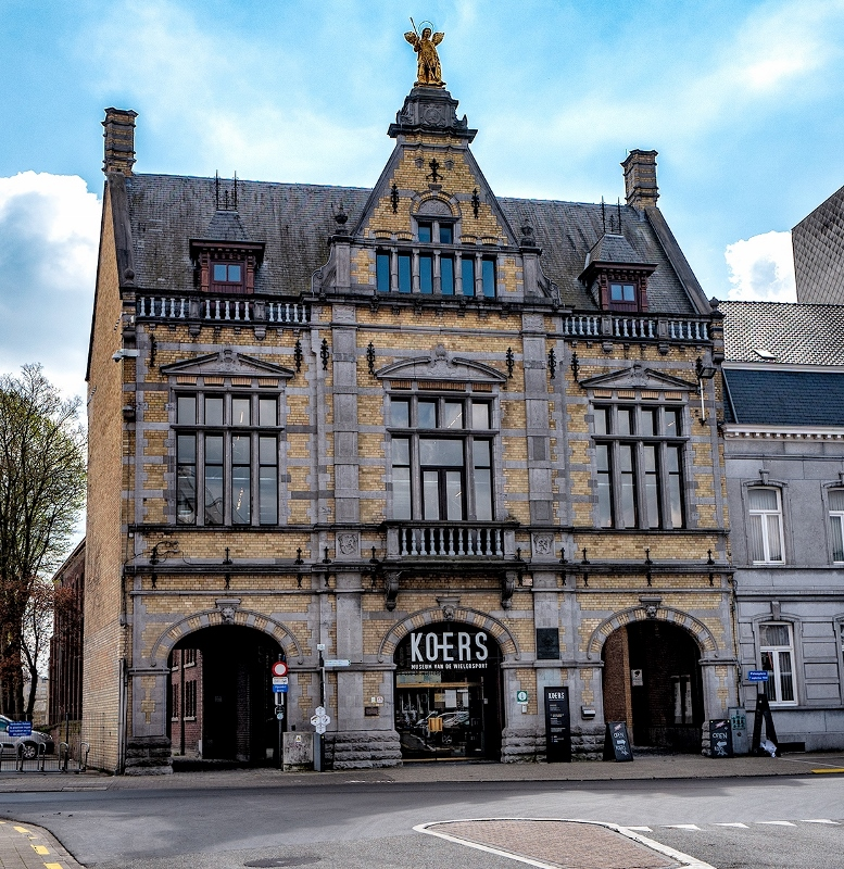 Front facade of KOERS. Museum of Cycle Racing, before used as fire-station, Roeselare, Belgium, 2019